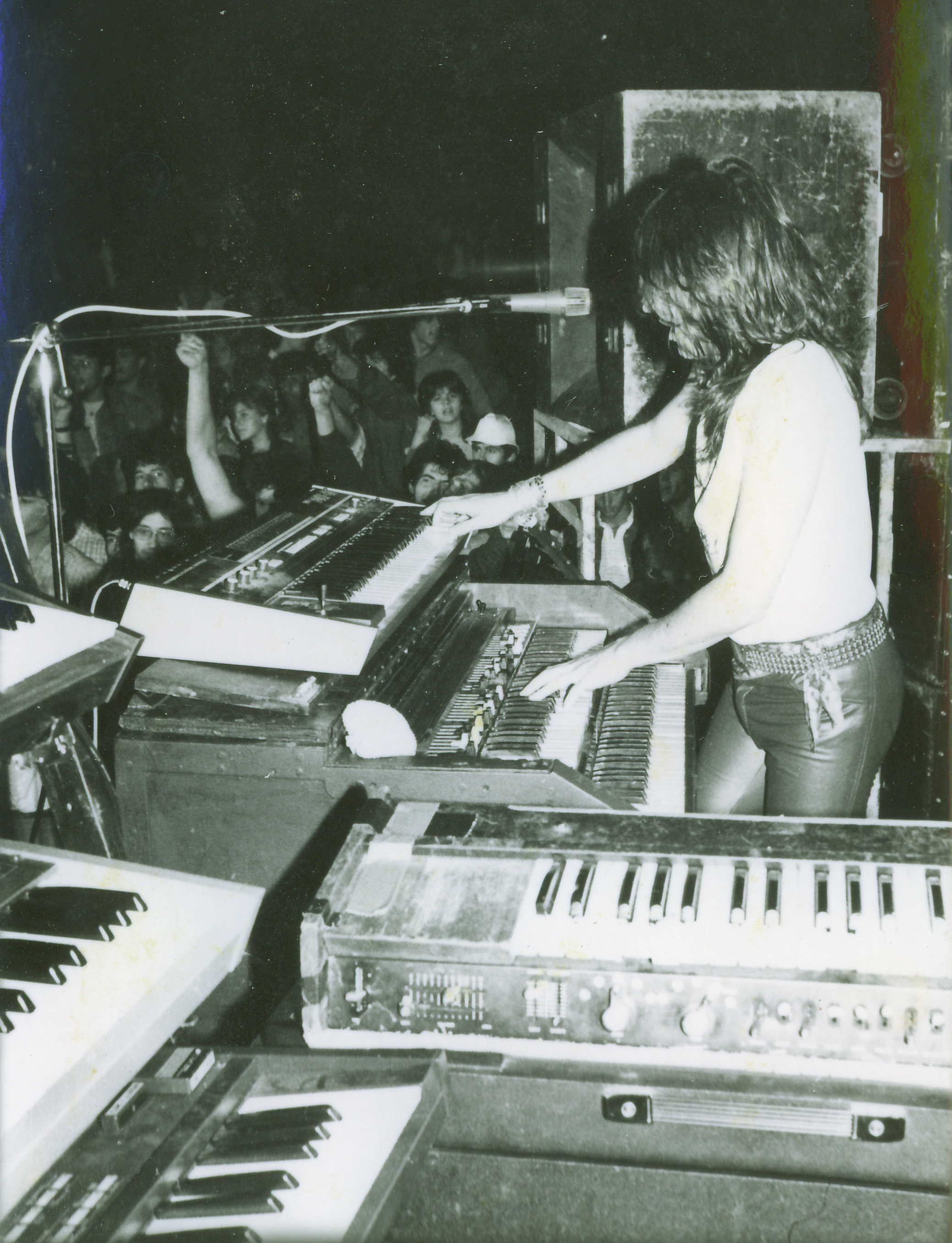 Yugoslav and Serbian musician Laza Ristovski